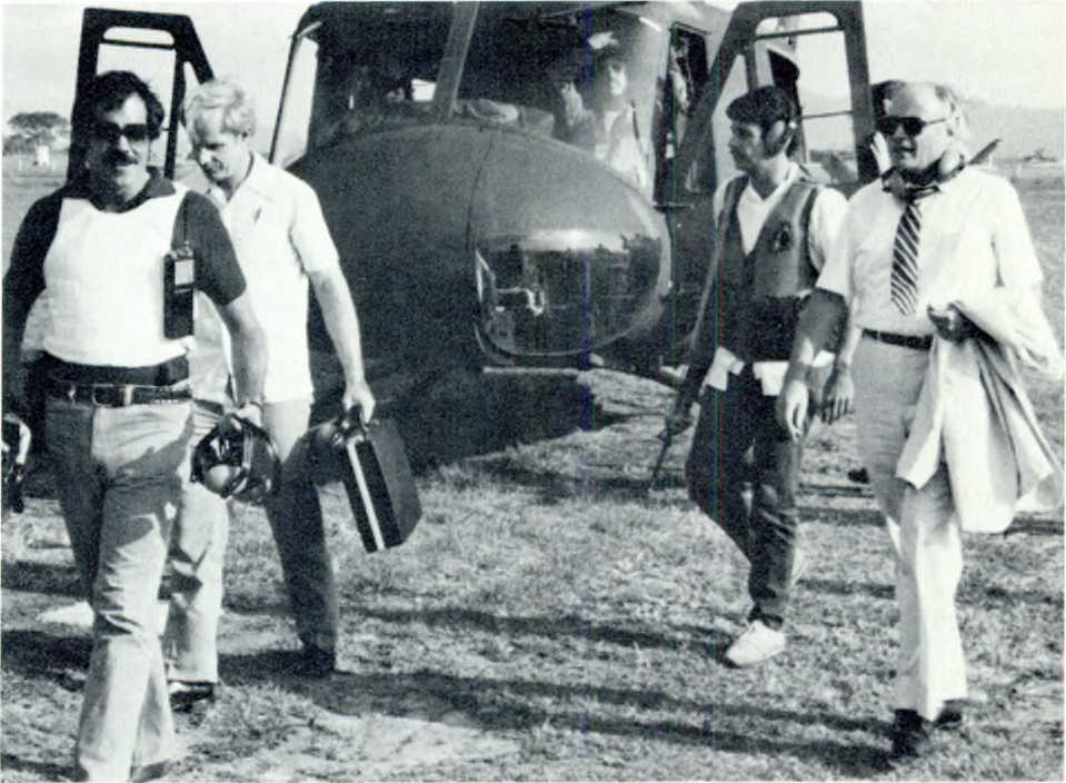 caption: "Armed Department of State security agents accompany U.S. Ambassador Deane Hinton in El Salvador." Hinton is the rightmost figure, wearing a shirt and tie.